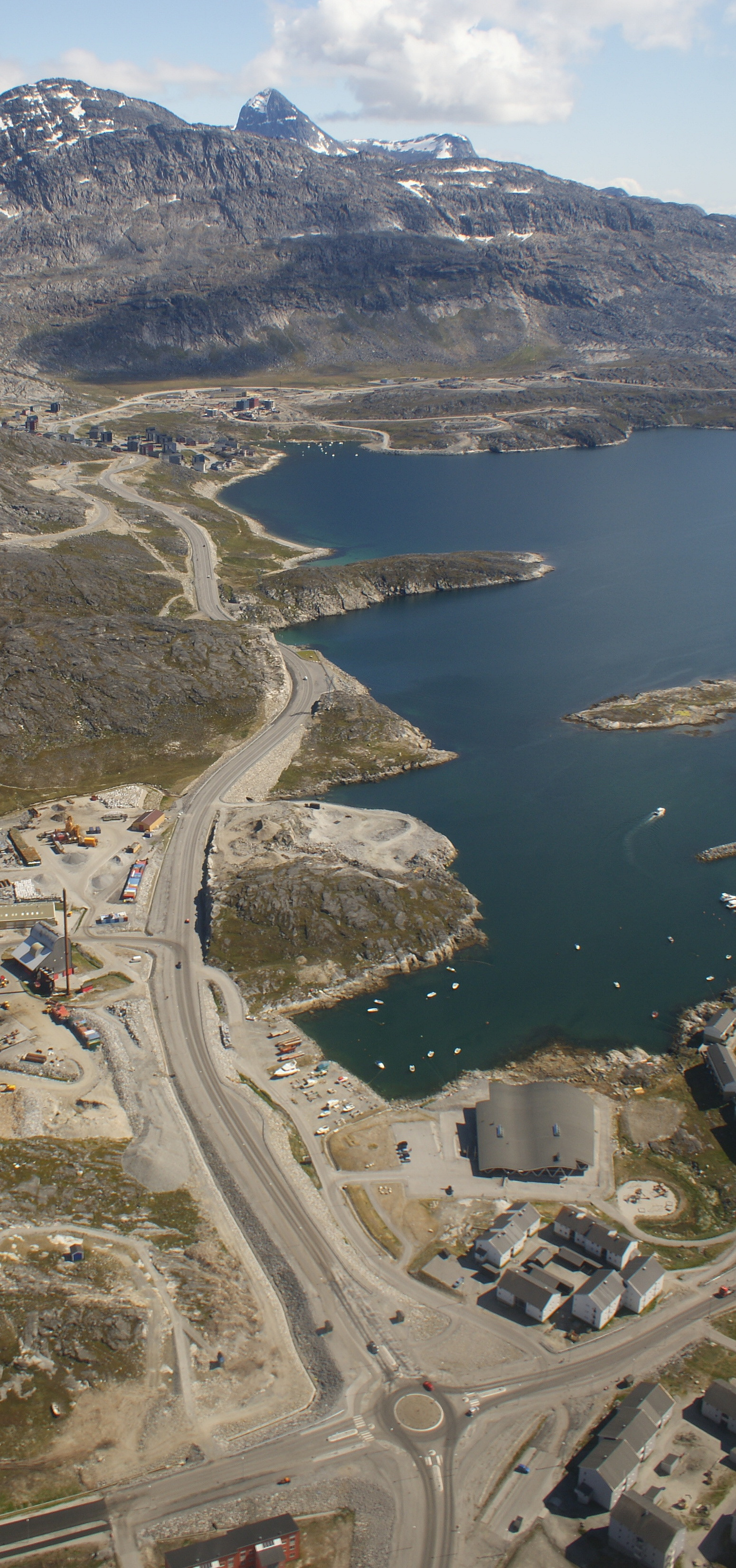 Aerial view of the road to Qinngorput, a district of Nuuk, the capital of Greenland. Photographed from the Air Greenland de Havilland Canada Dash-7 "Sululik" during the Sisimiut-Nuuk flight.